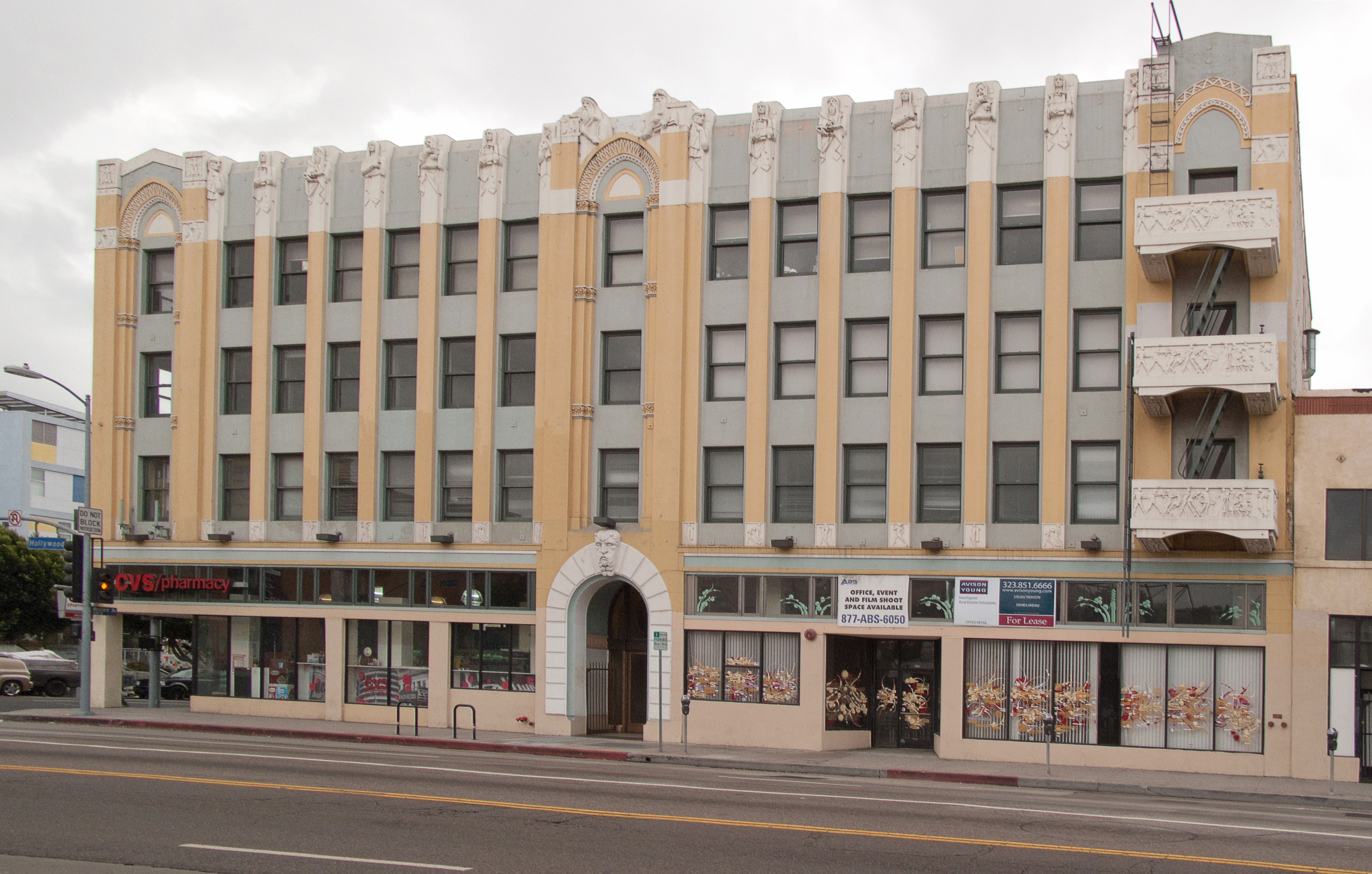 The historic Art Deco Hollywood & Western Building, at 5500 Hollywood Blvd., Los Angeles, California.